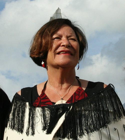 Wai Turoa Morgan is Maori Matakite. She origins form New-Zeeland en is seen as the “grandmother” of the shamans. The Maori posess great knowledge about the power of ancestors and their wisdom.